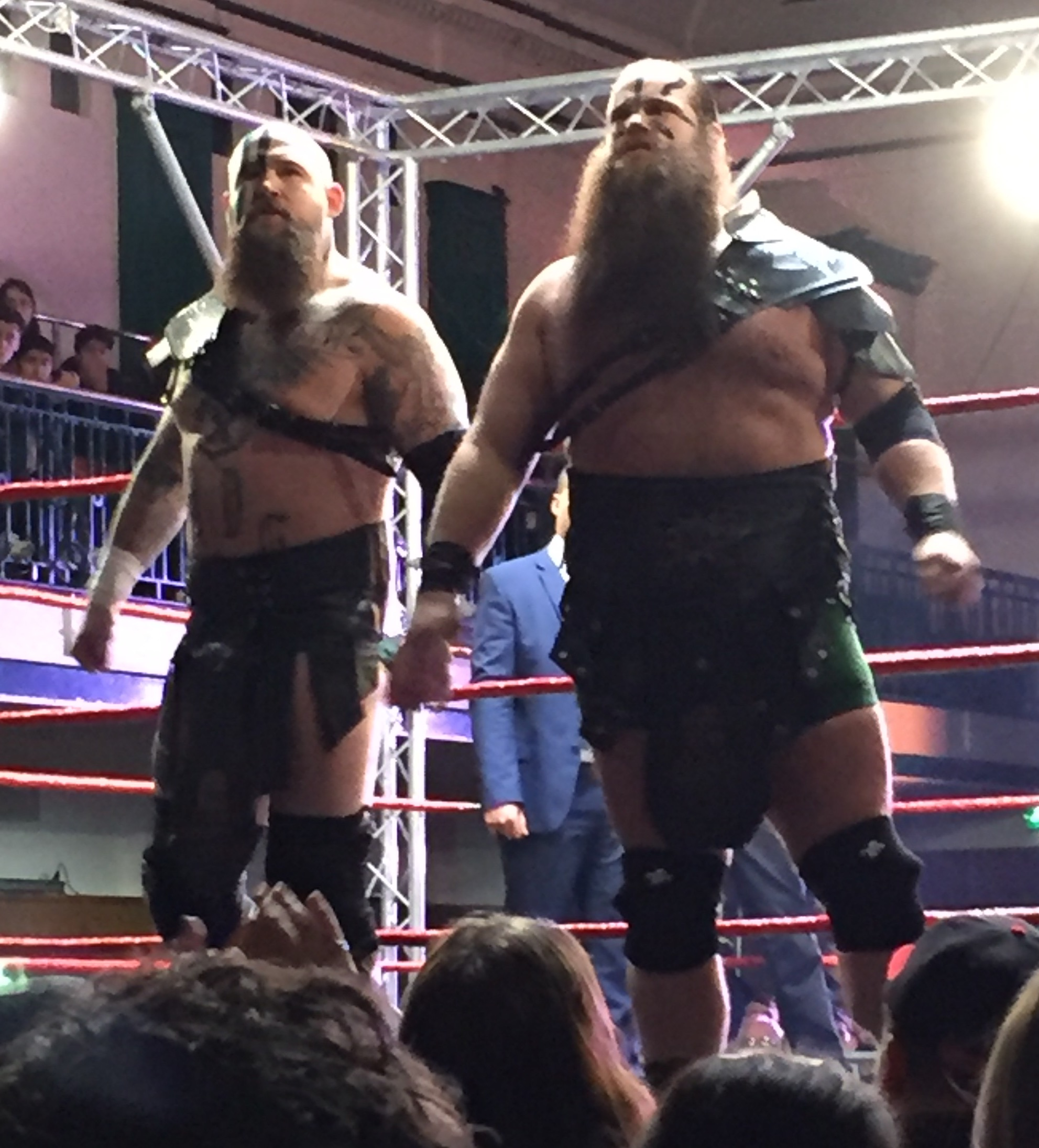 War Machine at RPW High Stakes.